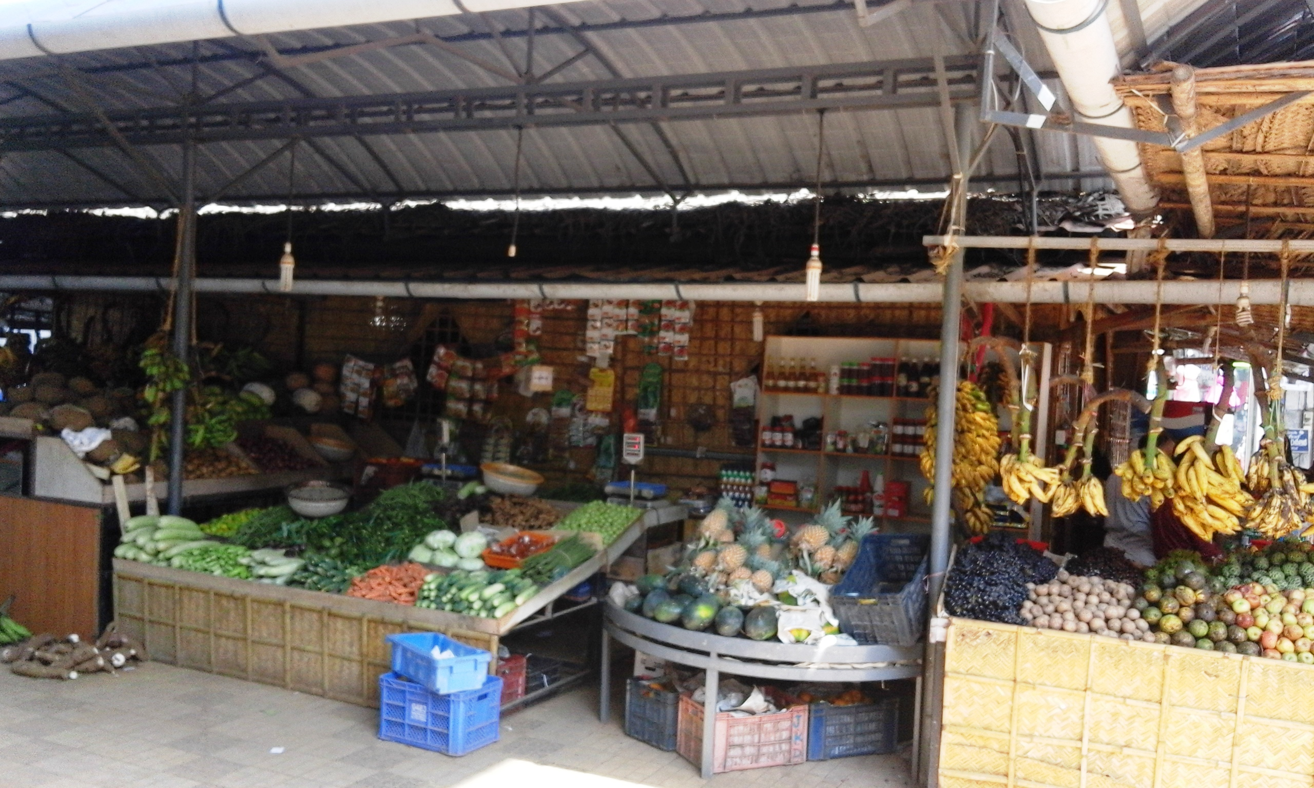 Edavanna, Nilambur, Malappuram Dt, Kerala, India.